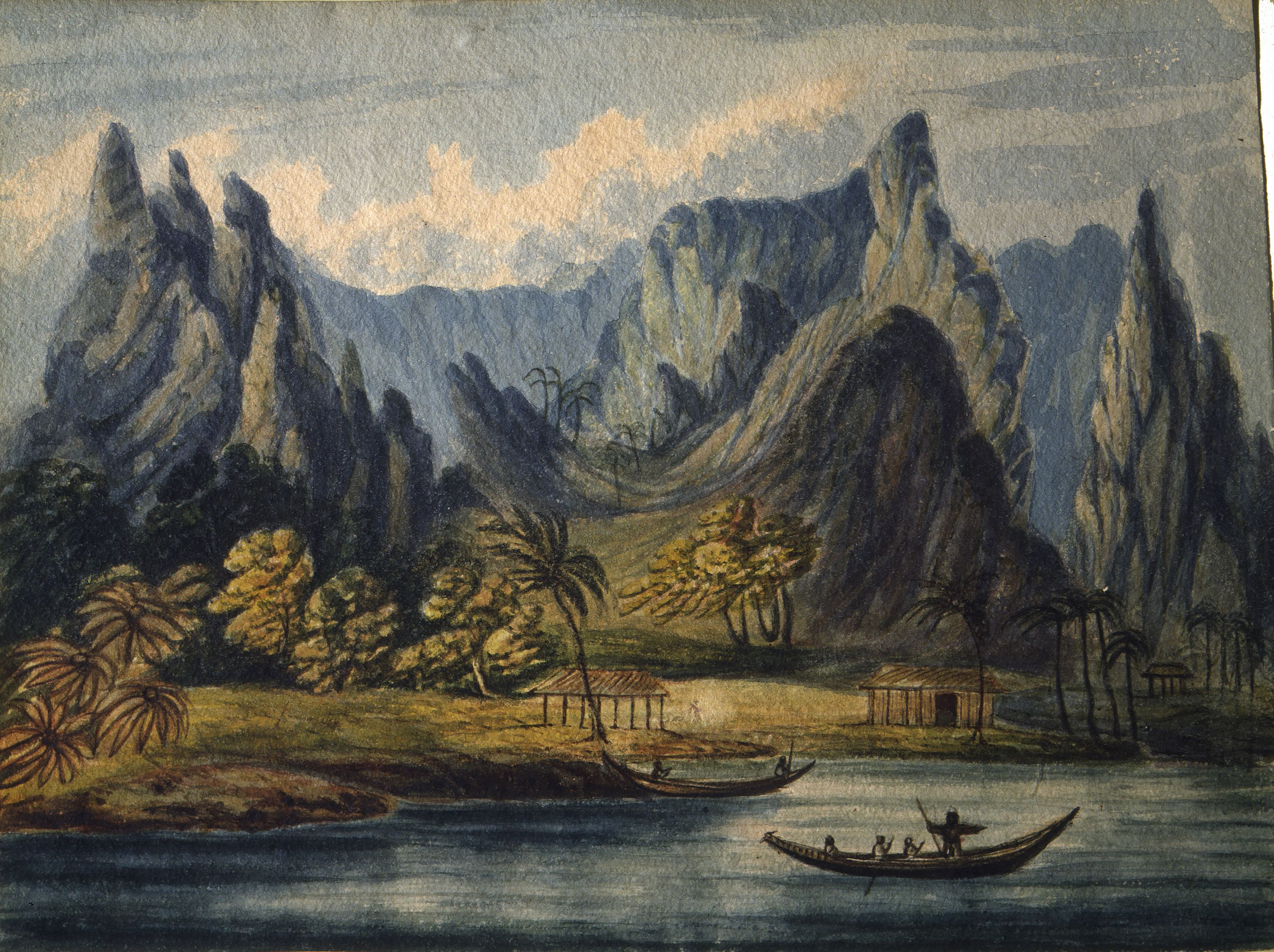 Tyerman, Daniel 1773-1828 :[Opoa, Island of Raiatea 1822]. Reference Number: A-263-004. Shows mission station on shore and native canoes in harbour, amongst tall palms and mountains.